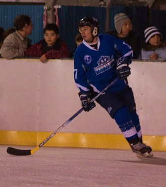 WCHHs